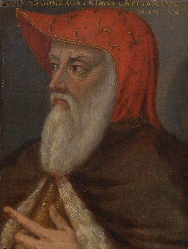 Portrait of Luis I Gonzaga (1268-1360)